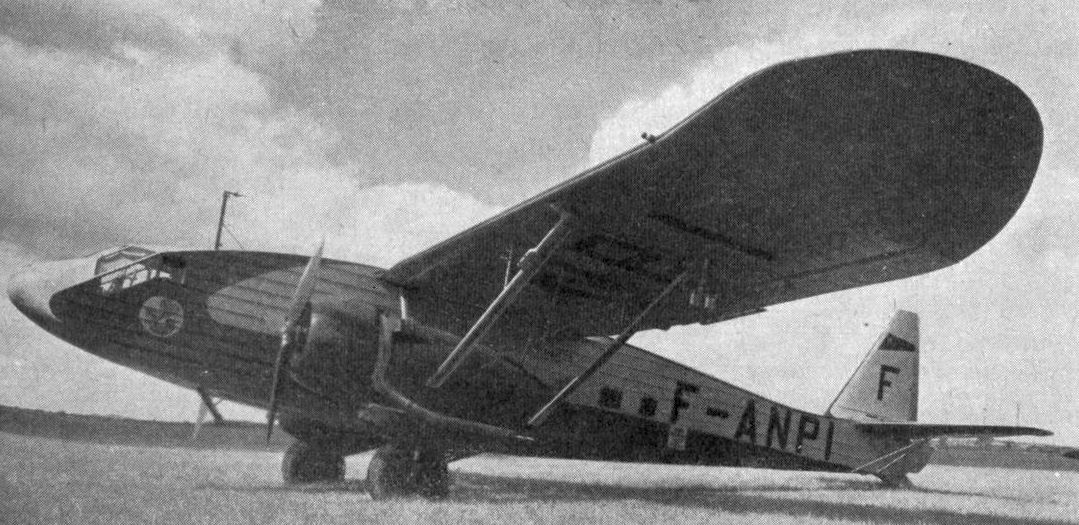 Potez 62 photo from L'Aerophile February 1936